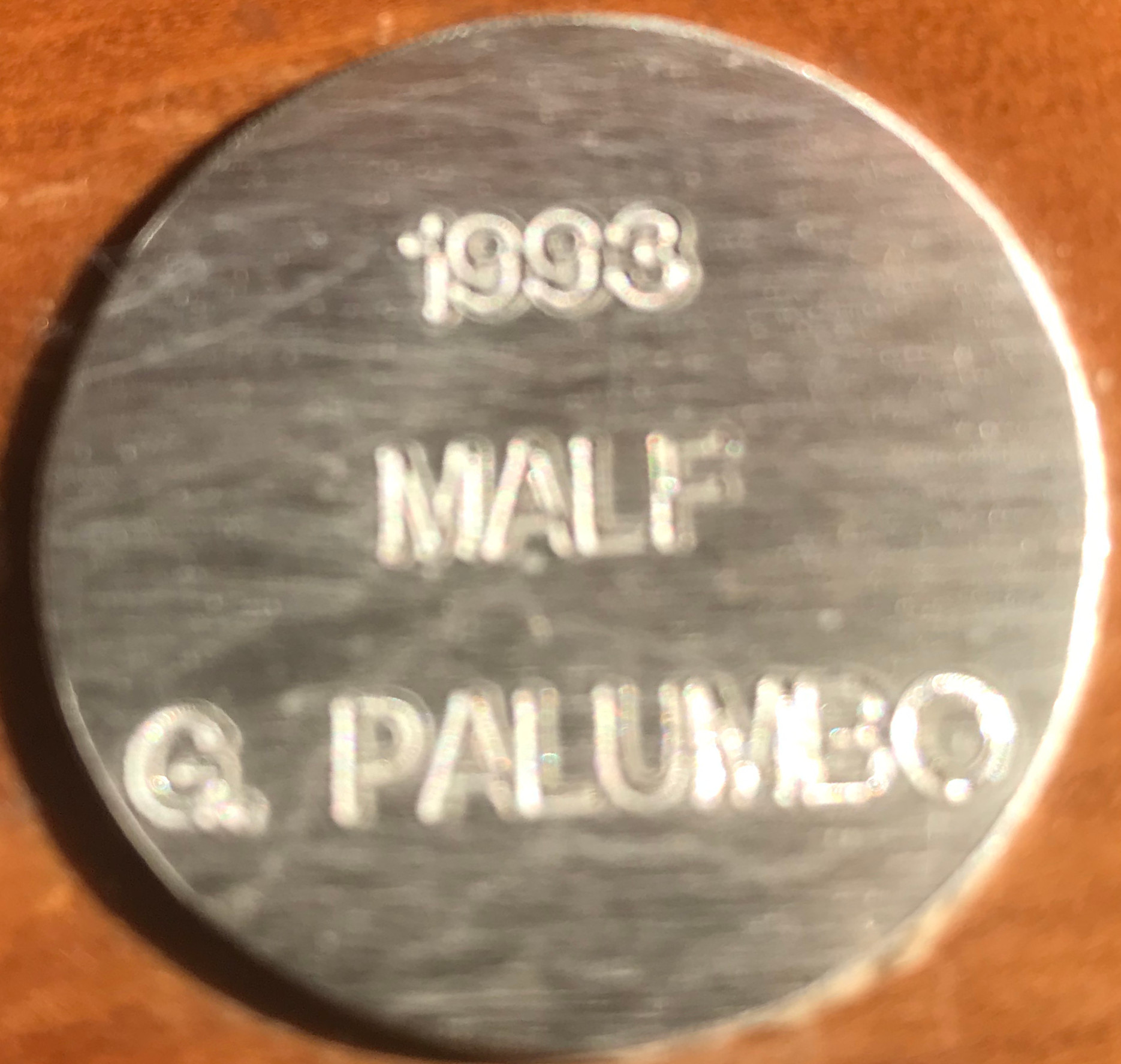 Patch on the Trophy